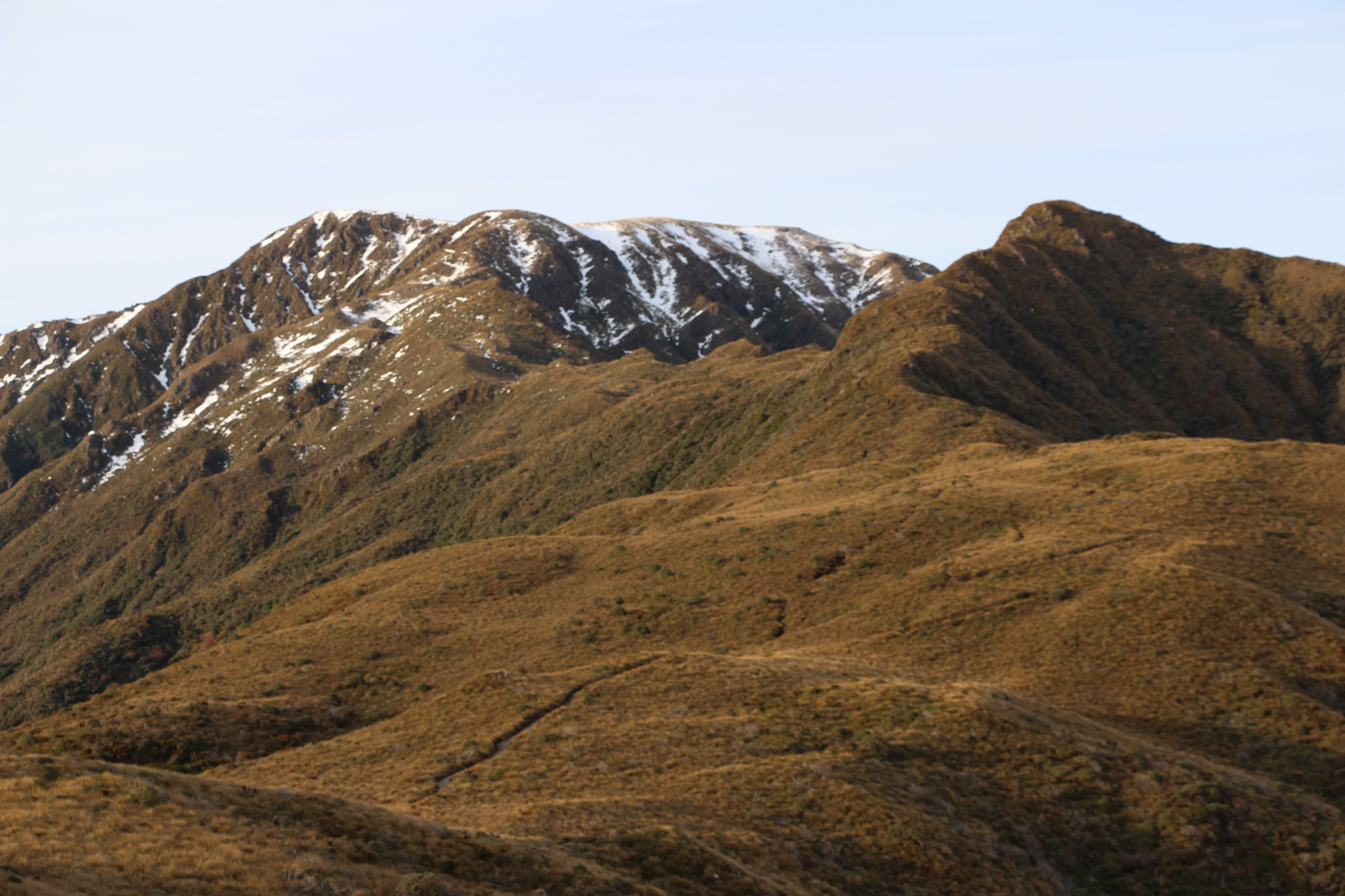 Tramping track Southern Crossing. Tararuas, New Zealand